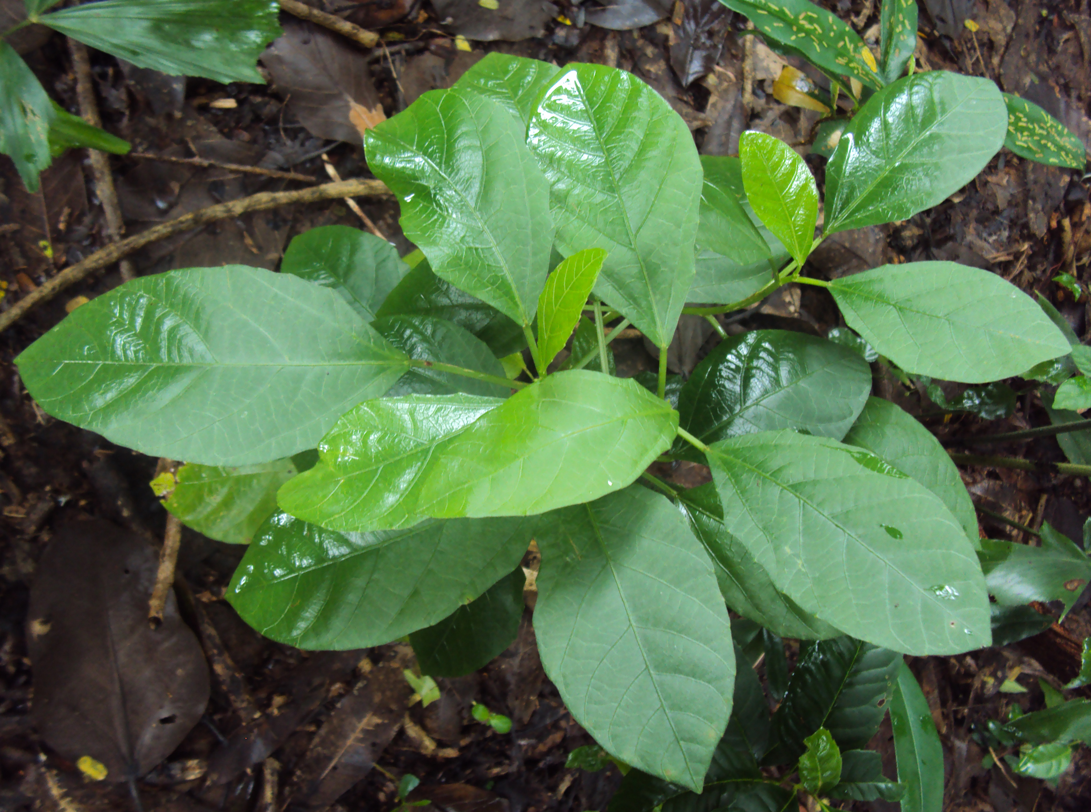 നാഗദന്തി - Baliospermum montanum